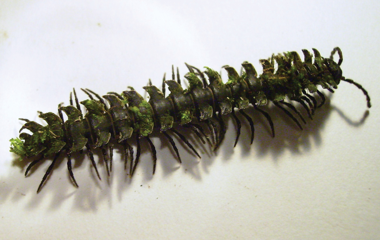 Bryophytes on a Psammodesmus bryophorus male.